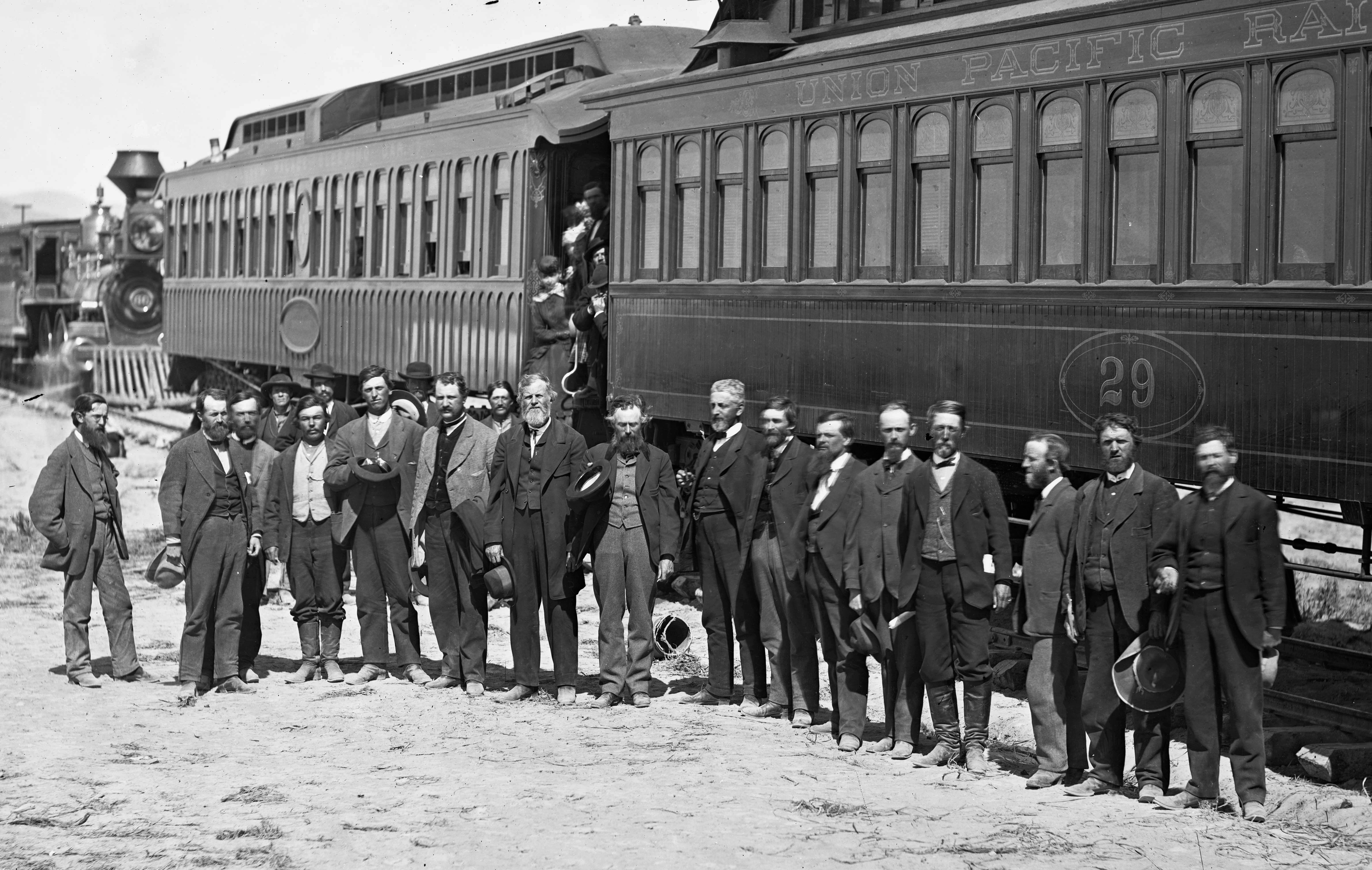 Photograph. Title: 224 Engineers of U.P.R.R. at the laying Of the Last Rail Promontory (Scratched on negative) Image Description: See title. Number 151 is also scratched on negative. Physical Description: "Imperial Plate" collodion glass negative, 10"X13 ". Sub. Cat.: Transportation -- Railroads